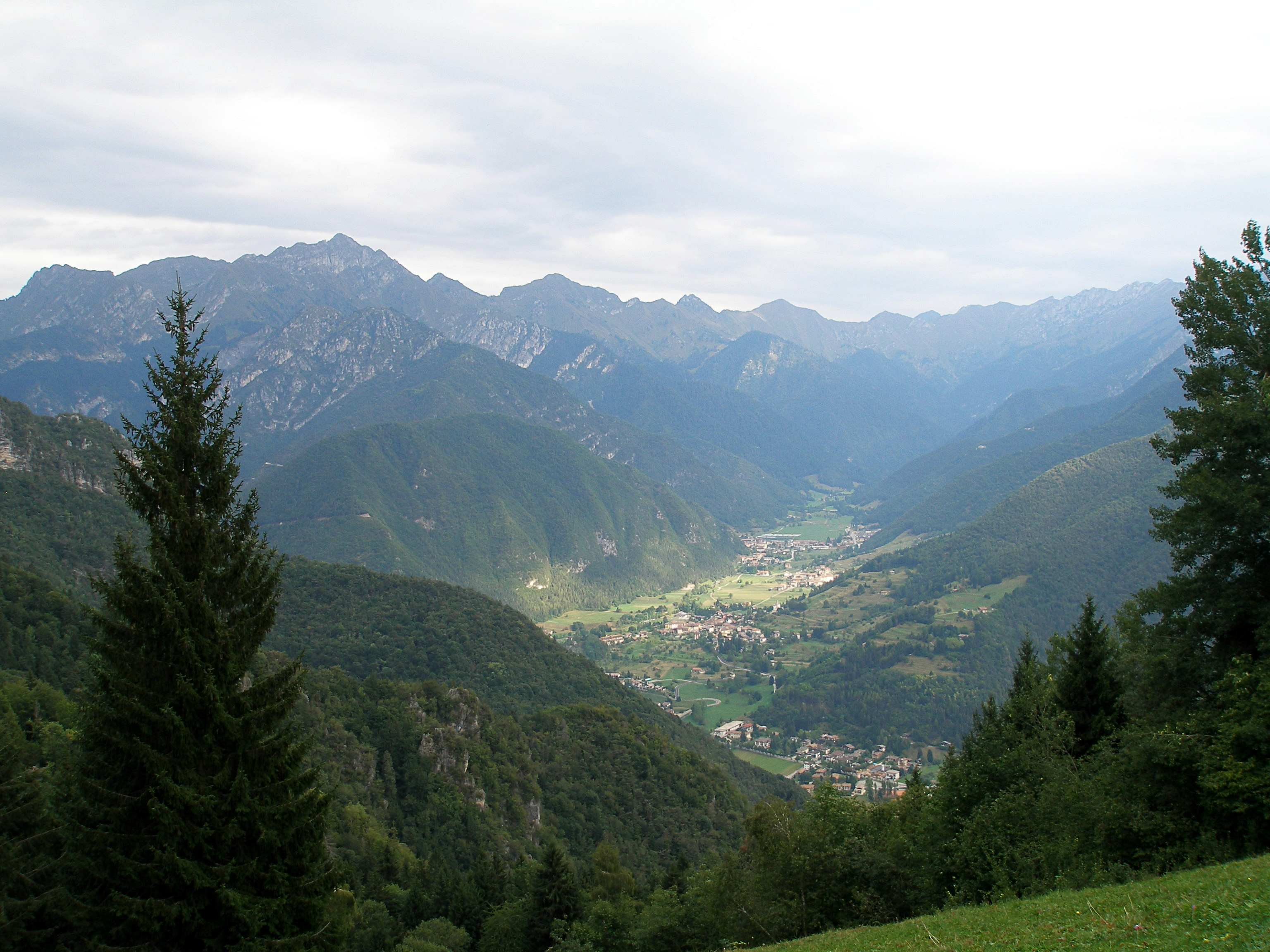 Concei Valley with Concei municipality (consisting of villages Locca, Enguiso and Lenzumo) and neighbouring mountains, visible also the Western part of Pieve di Ledro in the right bottom part of the photo